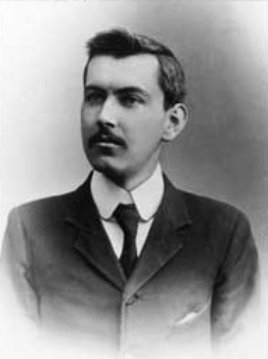 Photograph of New Zealand journalist and polyglot Harold Williams (1876-1928).